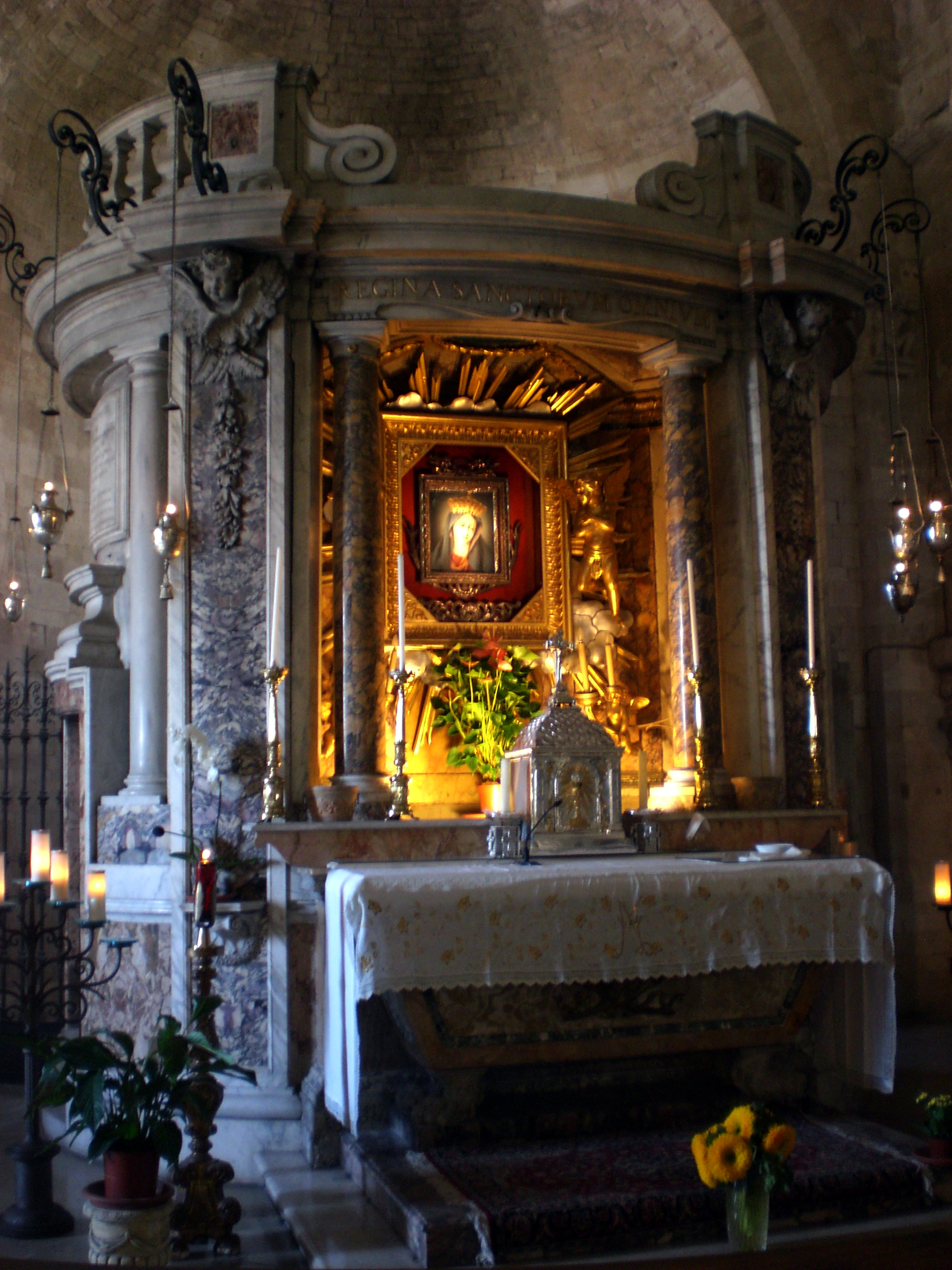 Ancona, Saint Cyriacus Cathedral, X-XII century